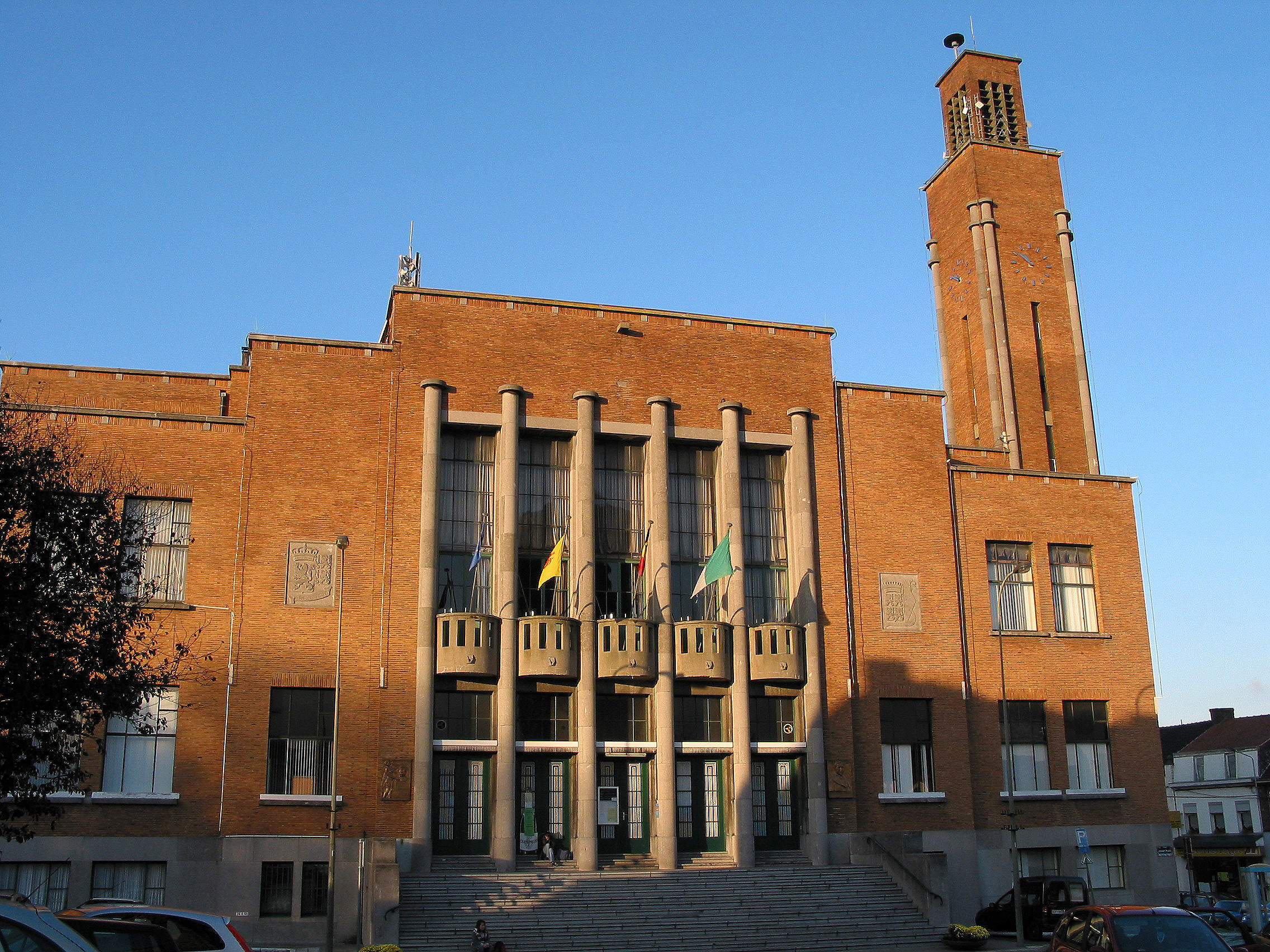 Quaregnon (Belgium) the town hall (1937/1938).